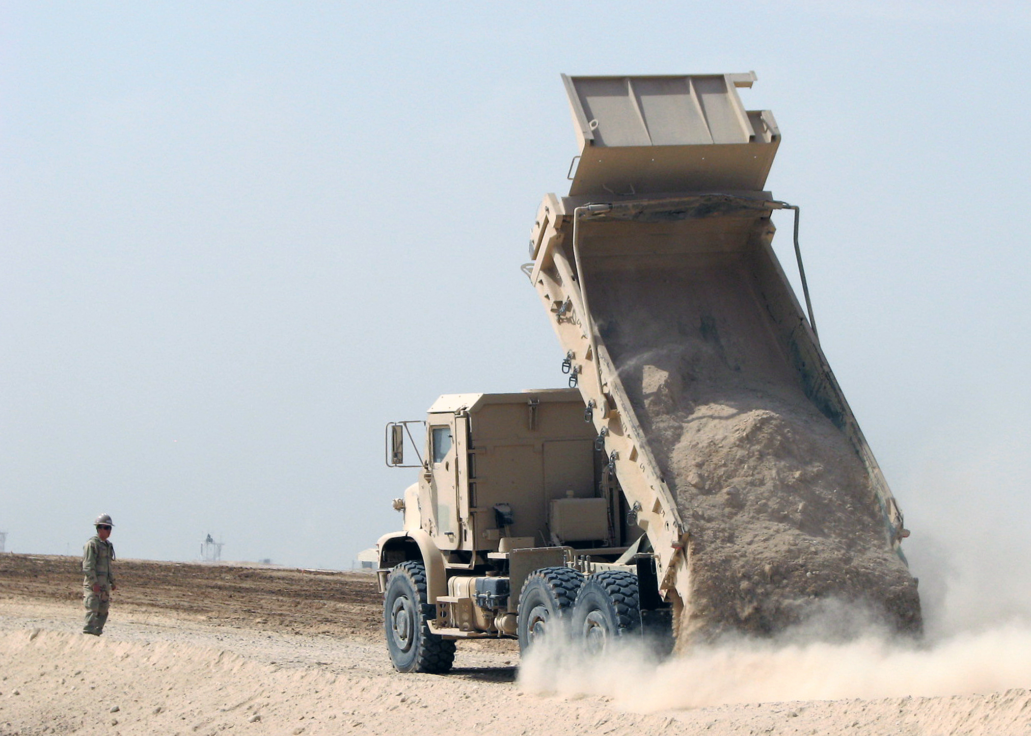 HELMAND PROVINCE, Afghanistan (March 20, 2009) A Seabee assigned to Naval Mobile Construction Battalion (NMCB) 5 directs a medium tactical vehicle replacement dump truck where to add dirt during a landing strip expansion project. NMCB 5 is deployed to Afghanistan supporting the NATO International Security Assistance Force. NMCB-5 is part of the Naval Expeditionary Combat Command warfighting support elements providing host nation construction support and security. (U.S. Navy Photo by Mass Communication Specialist 2nd Class Patrick W. Mullen III/Released)